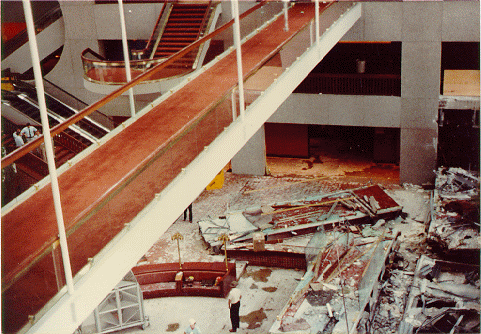 View of the lobby floor, during the first day of the investigation of the Hyatt Regency walkway collapse.